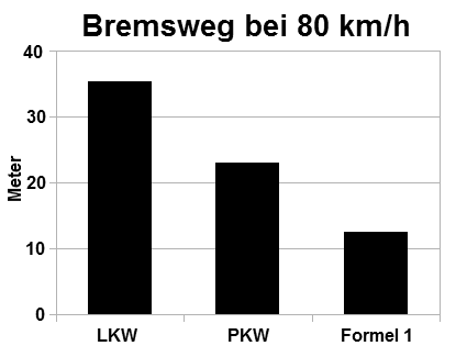 Braking distance at 80 km/h in Meter EU 40 to truck, normal car, Formula 1 fully loaded numbers ADAC.de 9/2015 and Auto Motor und Sport